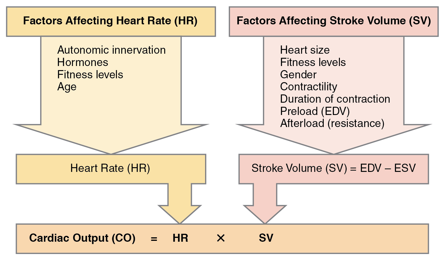 Illustration from Anatomy & Physiology, Connexions Web site. Jun 19, 2013.